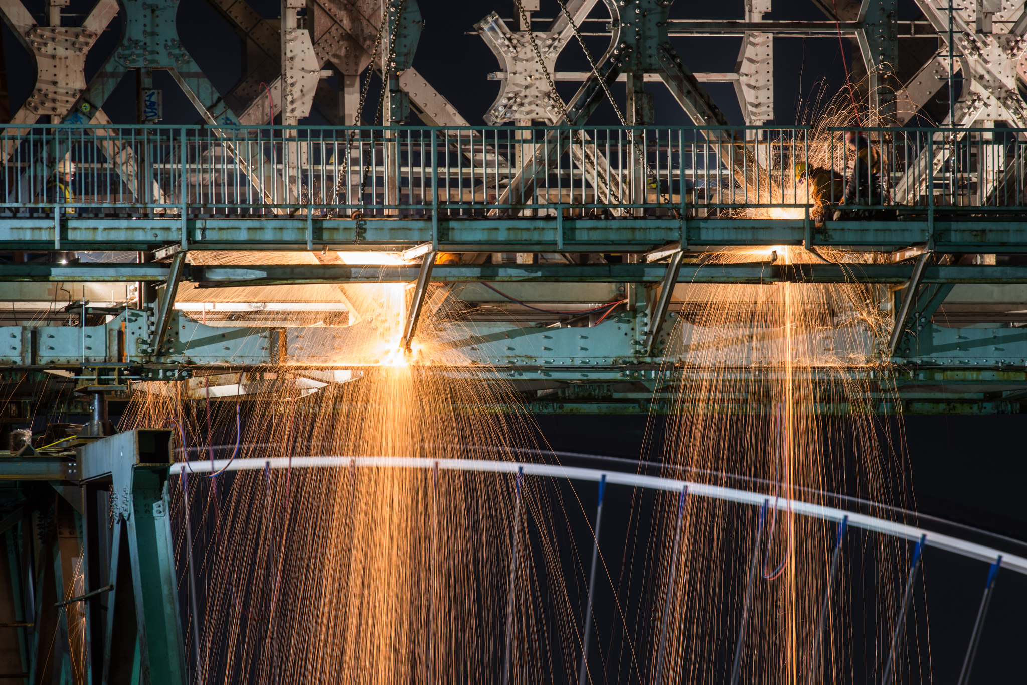 Welding in Starý most (Bratislava)